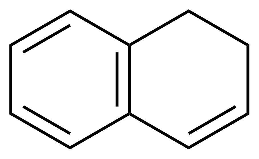 I made this, anyone can use it Comments High-resolution black/white .PNG made with ChemDraw — see WikiProject Chemistry - structure drawing for detailed instructions. Please drop me a note if you need the source file.